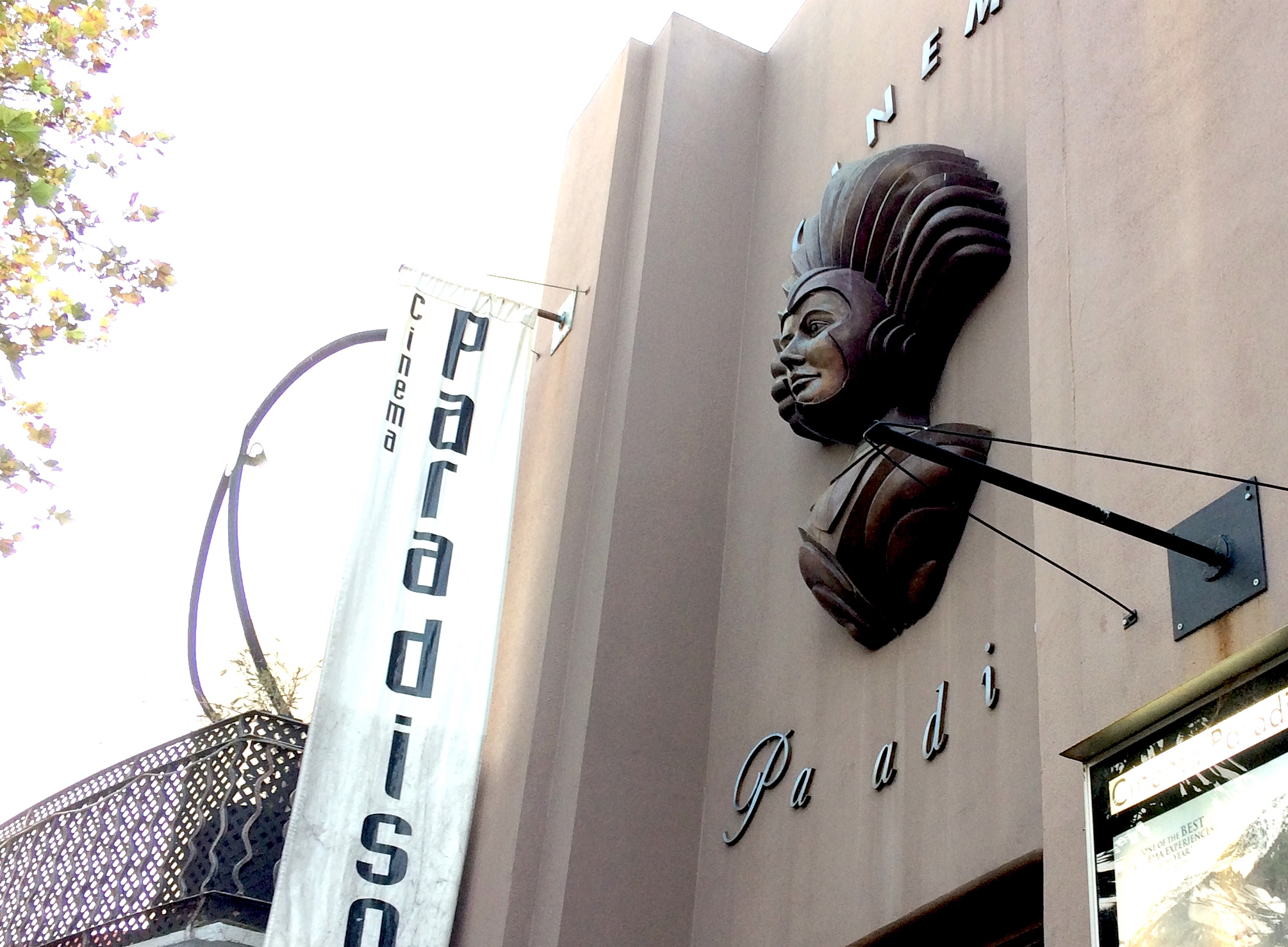 Cinema Paradiso, Northbridge Western Australia